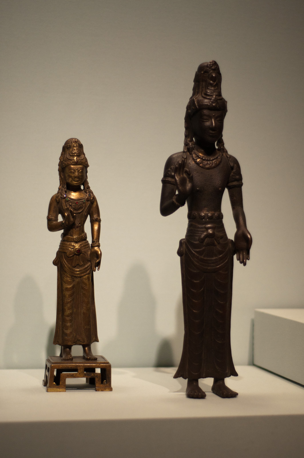 This pair of gilt bronze standing Guanyins are typical of those from the Kingdom of Dali, which existed from 937 to 1253 in what is Yunnan Province, China today. The Dali Guanyins are styled after an Indian monk who introduced Avalokitesvara/Guanyin worship to the area around 600 AD.